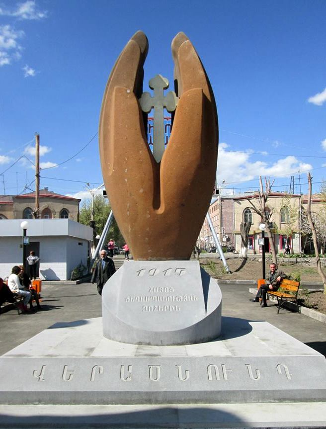 Վերածնունդ, Գյումրի, Renaissance (ReBirth), Gyumri